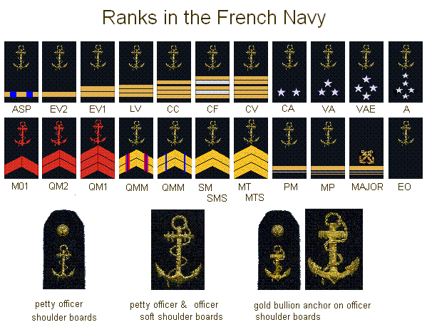 ranks in the French Navy (2008)